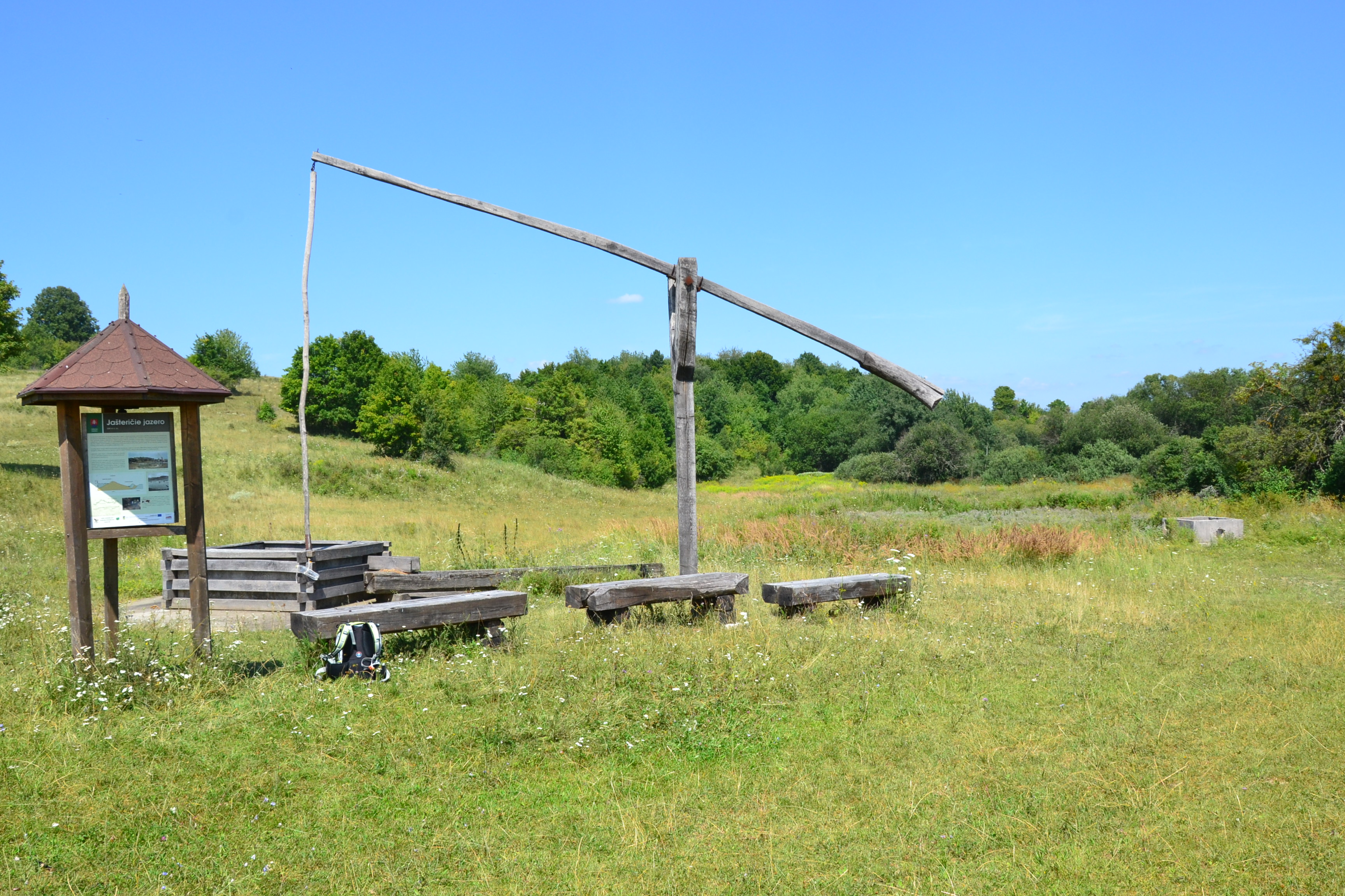 Silická planina (Slovakia) - Jašteričie jazero (Lizard's Lake, deep inside; summer 2018 completely dry and overgrowed), in first plan the well.